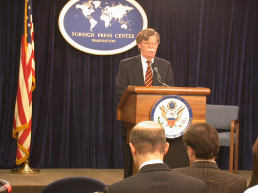 John R. Bolton, Under Secretary of State for Arms Control and International Security